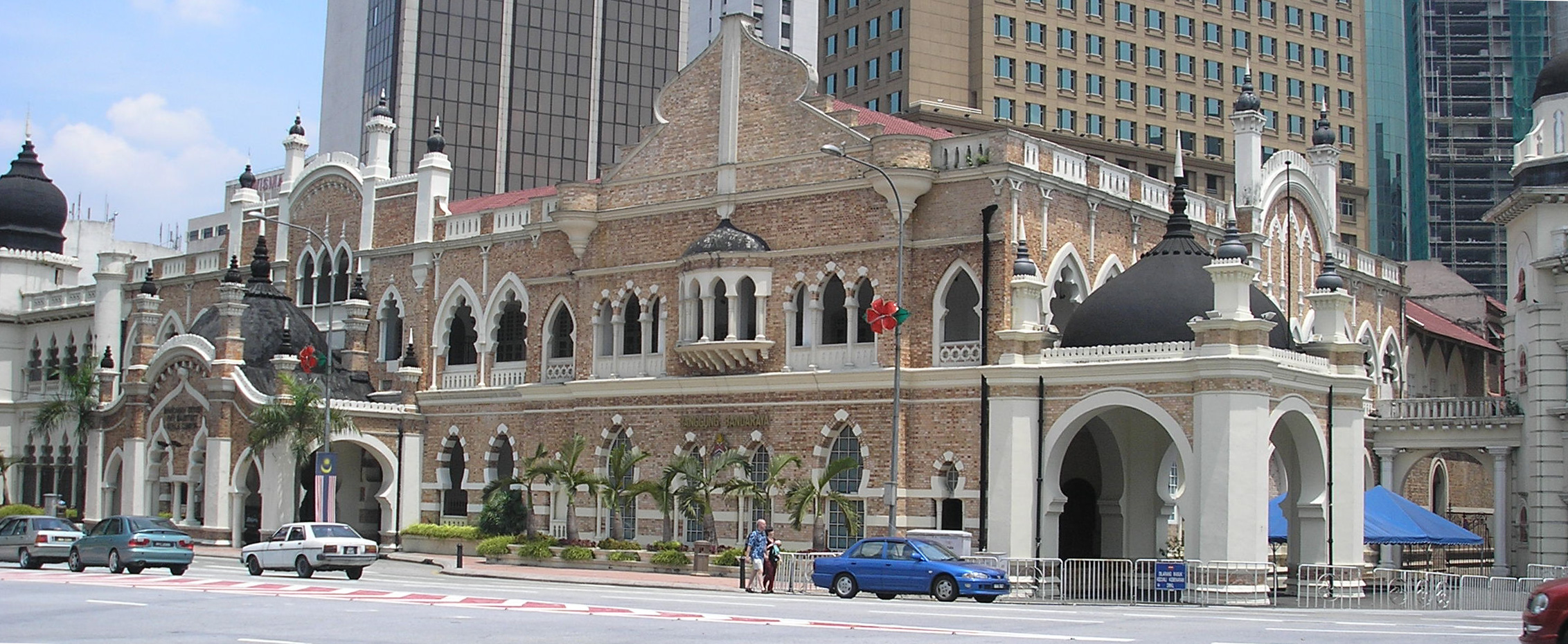 The Old Kuala Lumpur City Hall (also known as a town hall) at Jalan Raja (Raja Road), Merdeka Square, Kuala Lumpur, Malaysia. The building was vacated by City Hall during the later half of the 20th century following the completion of a new office building, in the form of a tower, just down the road. The building is currently used in part as a cultural theater.